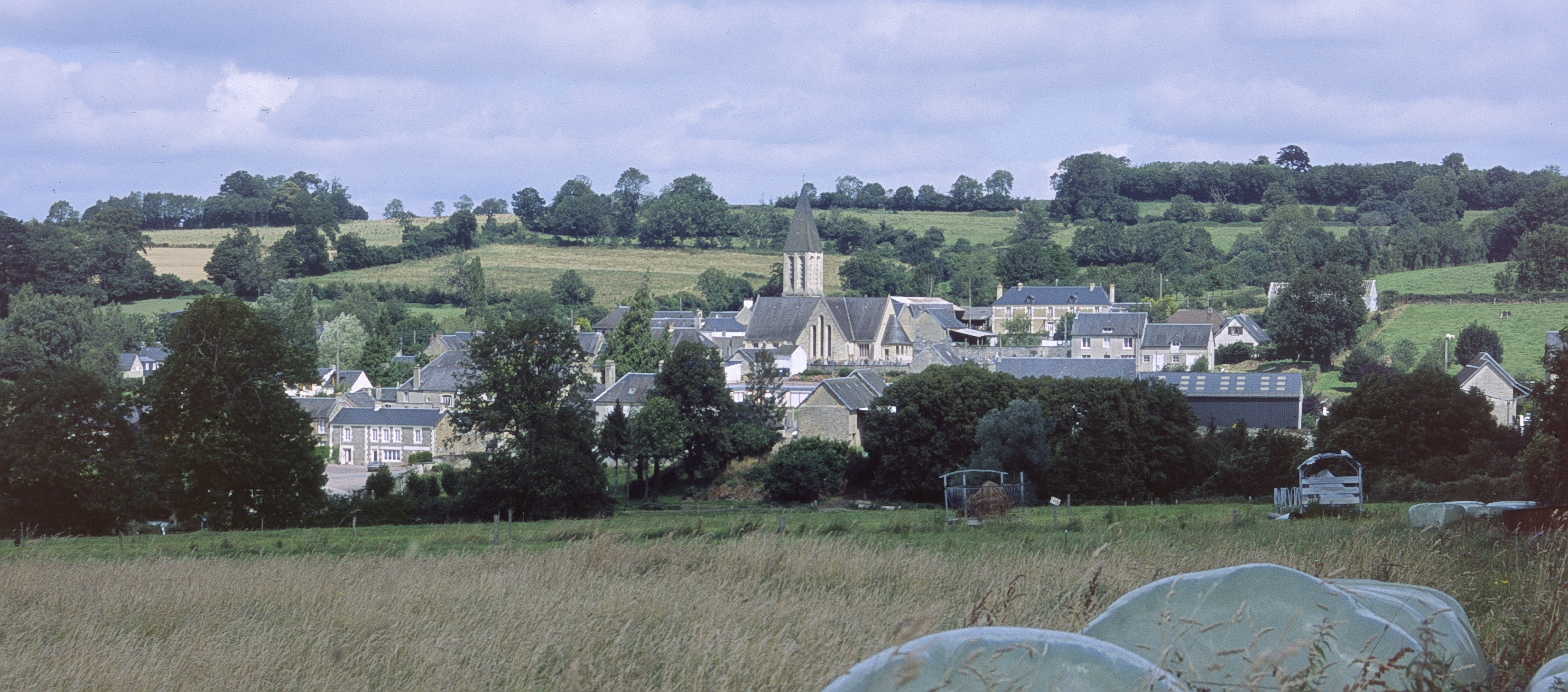 View market town Anctoville, village of Calvados, France